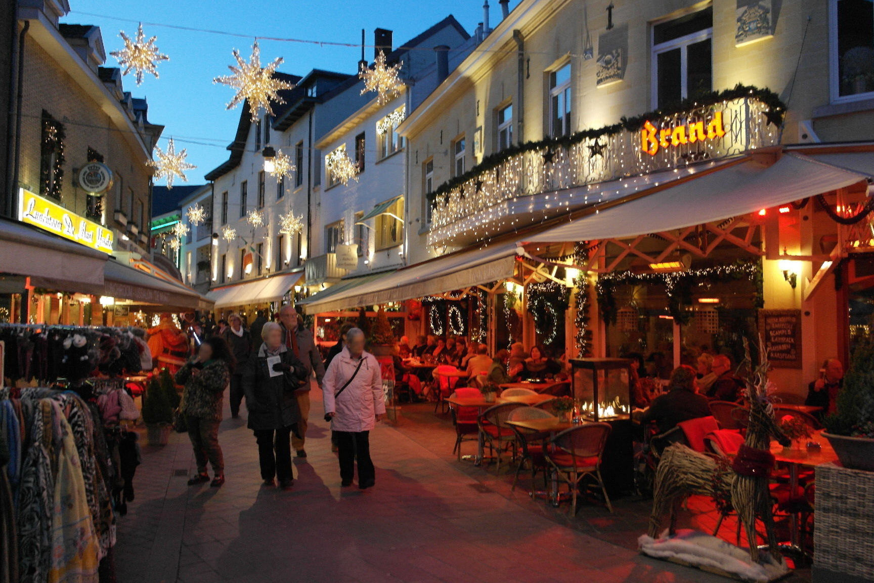 Valkenburg, Limburg, the Netherlands. Christmas lights in Muntstraat.